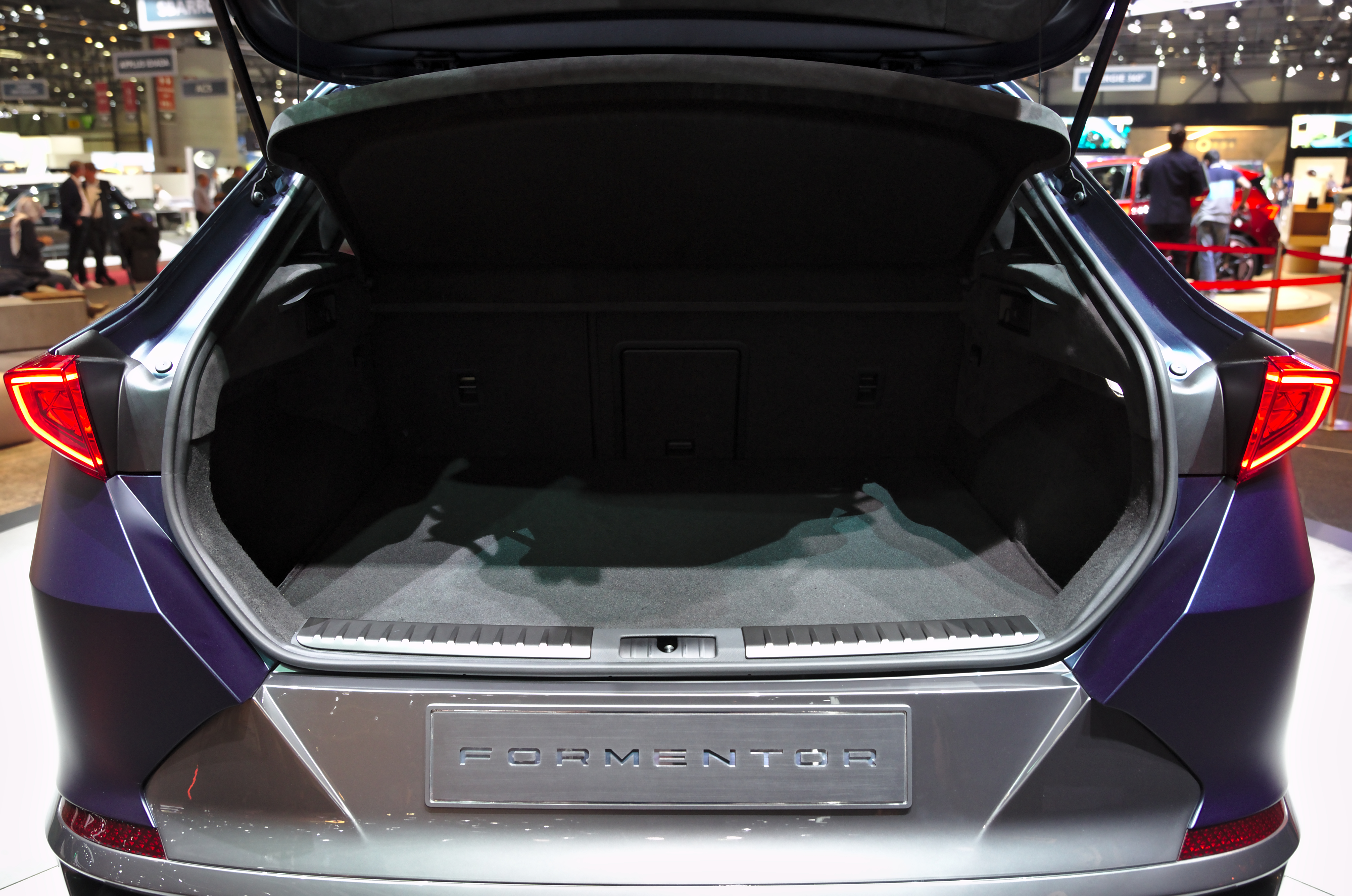 Cupra Formentor at Geneva Motor Show 2019